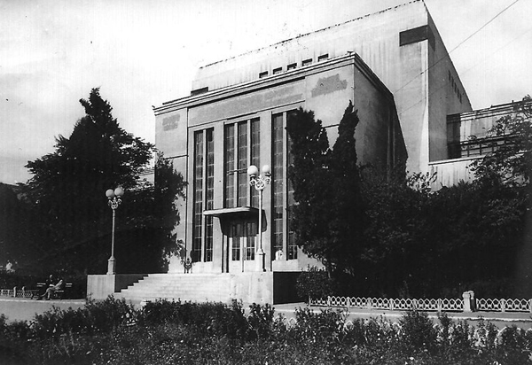 Historic photograph of the Physiotherapy Institute of Baku, caption: "A general view of the Institute of Physical Therapy, 1929., Architect G. Ter-Mikelyan"